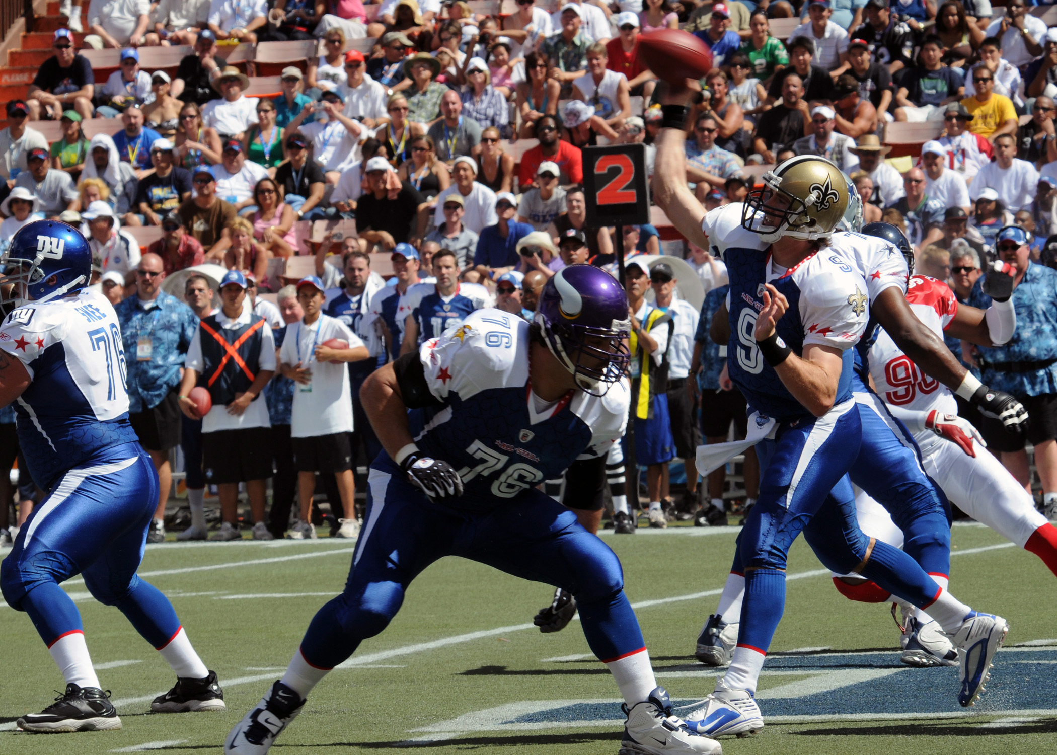 New Orleans Saints quarterback Drew Brees throws a pass during the fourth quarter of the National Football League Pro Bowl Feb. 8, 2009, at Aloha Stadium in Honolulu. VIRIN: 090208-N-9758L-549